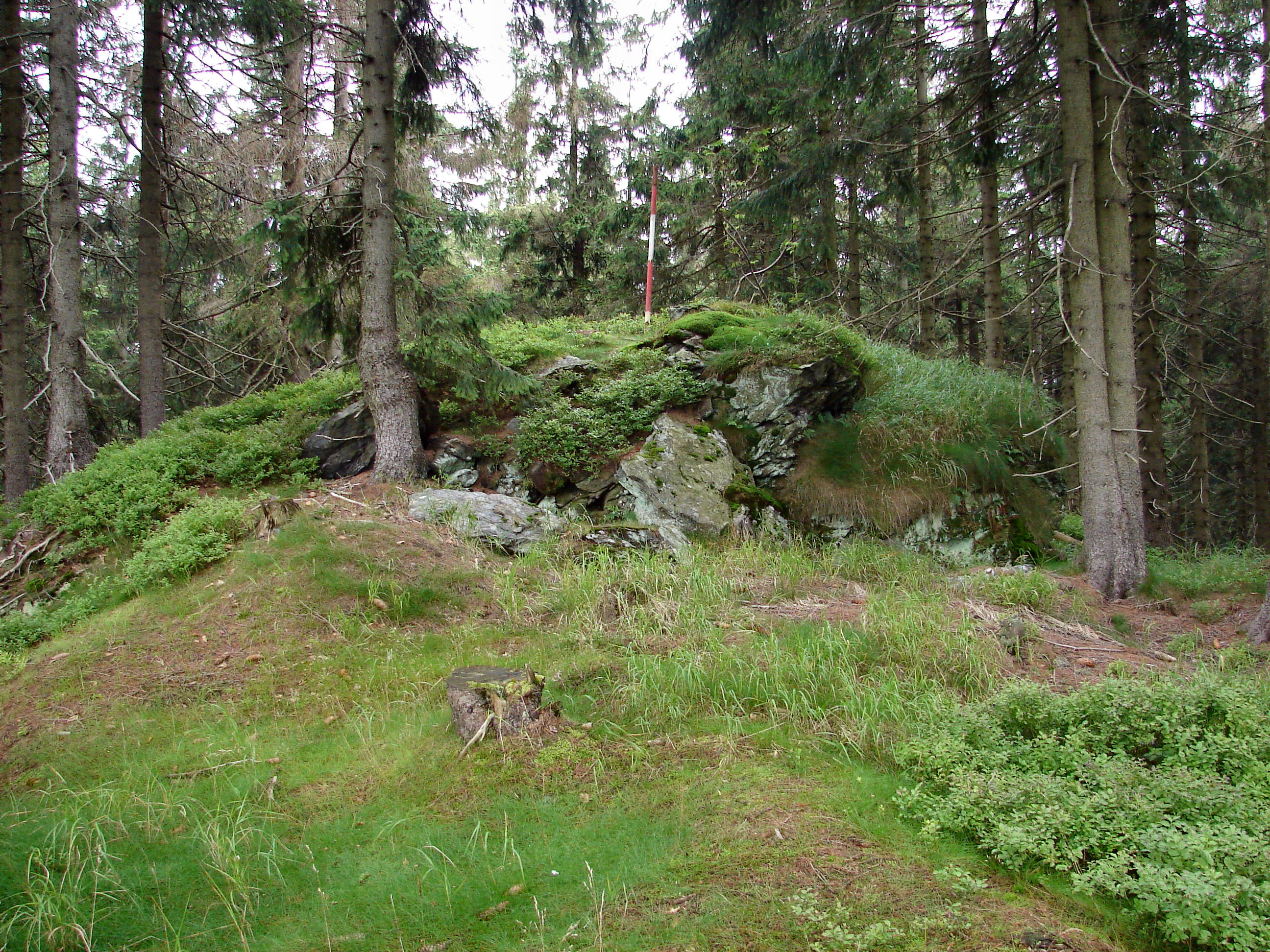 Summit of the Preislerův kopec in the Giant Mountains (Krkonoše)